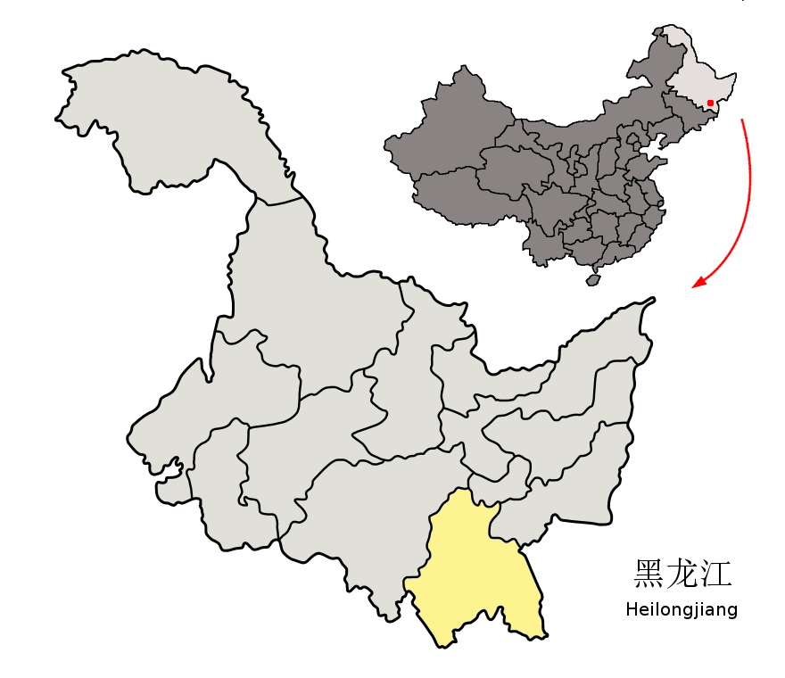 Location of Mudanjiang Prefecture (yellow) within Heilongjiang Province of China Map drawn in november 2007 using various sources, mainly : Heilongjiang Province administrative regions GIS data: 1:1M, County level, 1990 Heilongjiang Counties map from